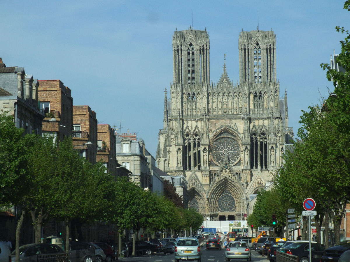 Cathedral Notre-Dame de Reims, France - West front